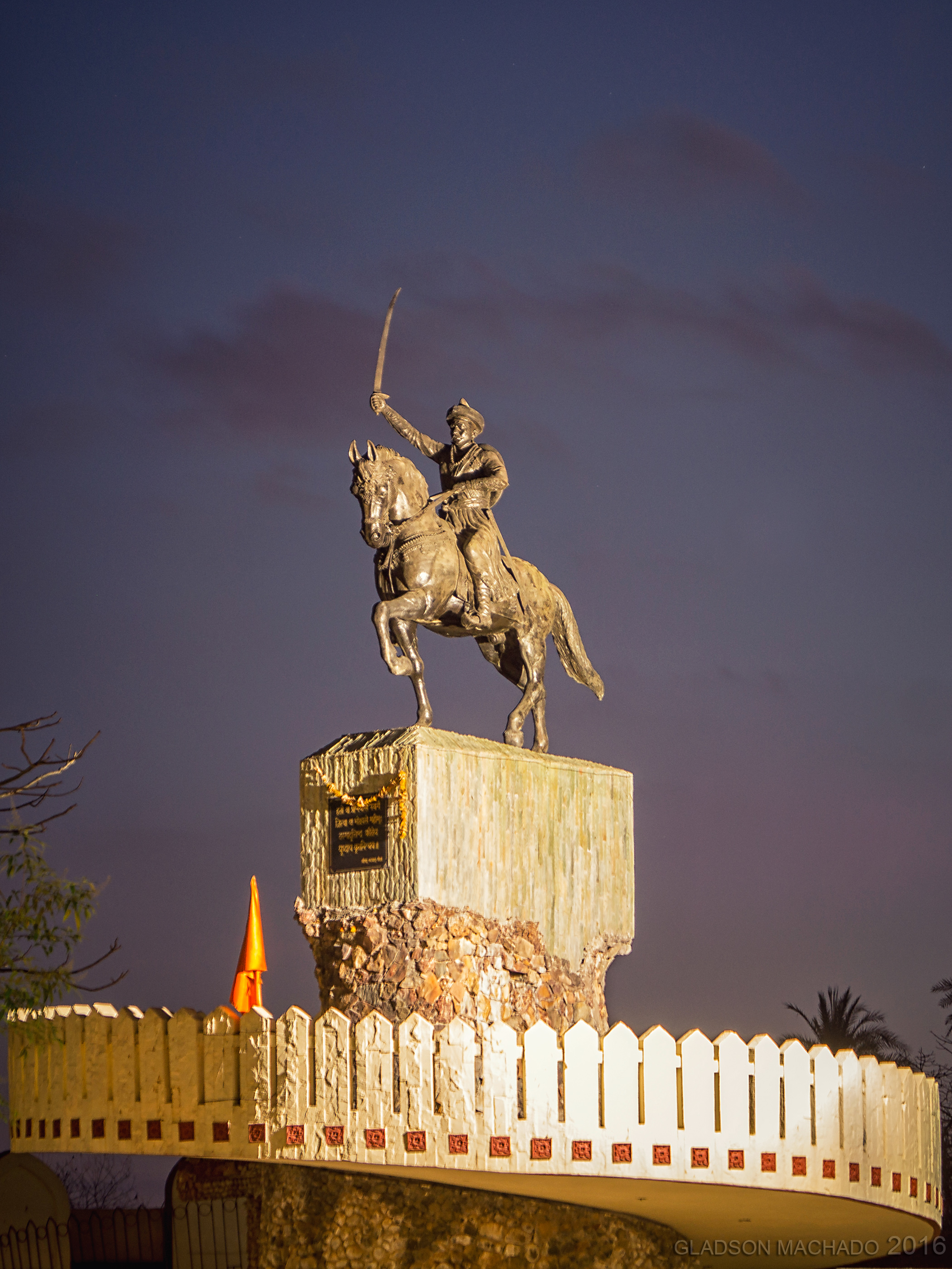 Maratha General Chimaji Appa Statue at Vasai Fort as seen before sunrise.